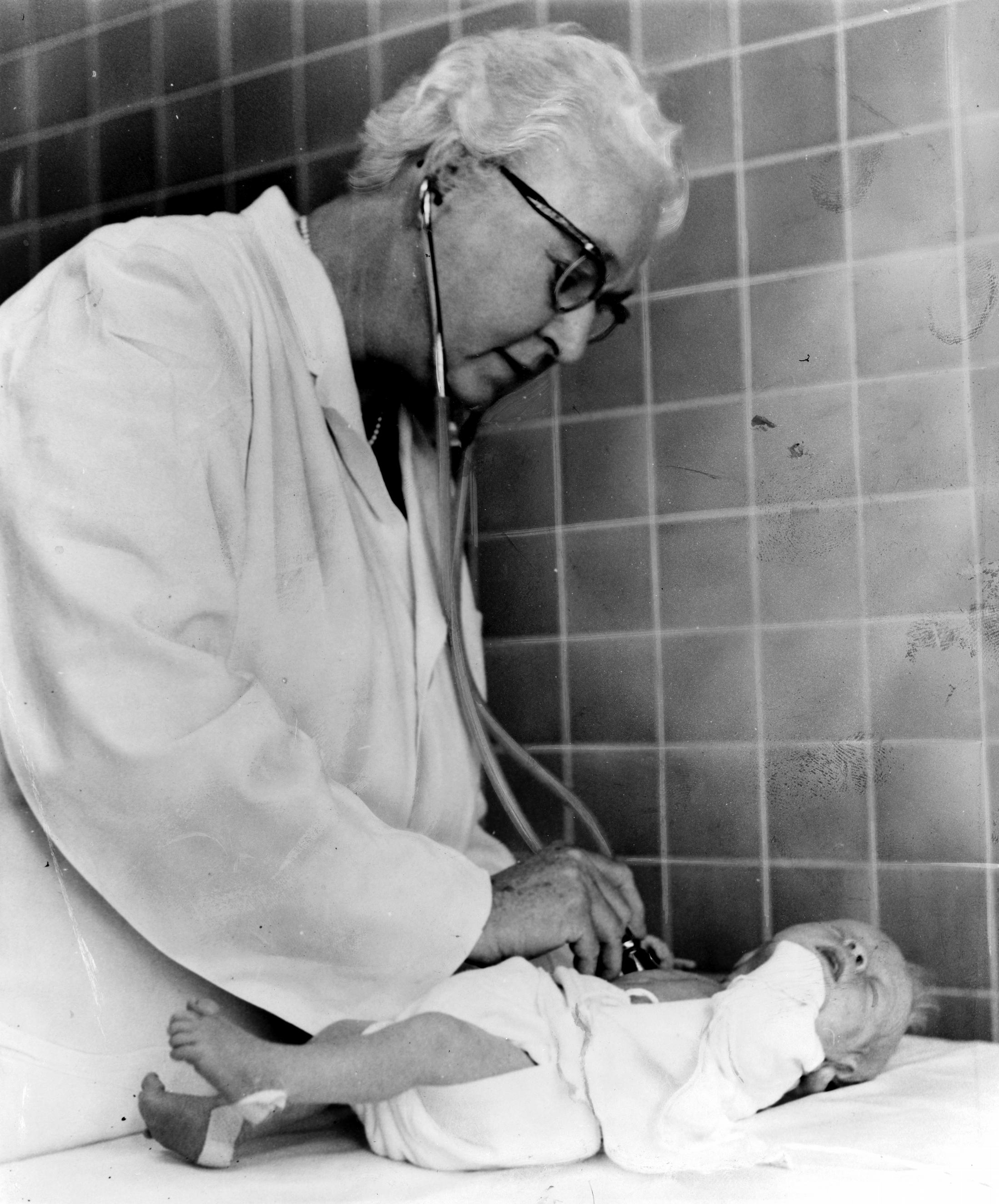 Virginia Apgar, American physician who introduced the Apgar Score.